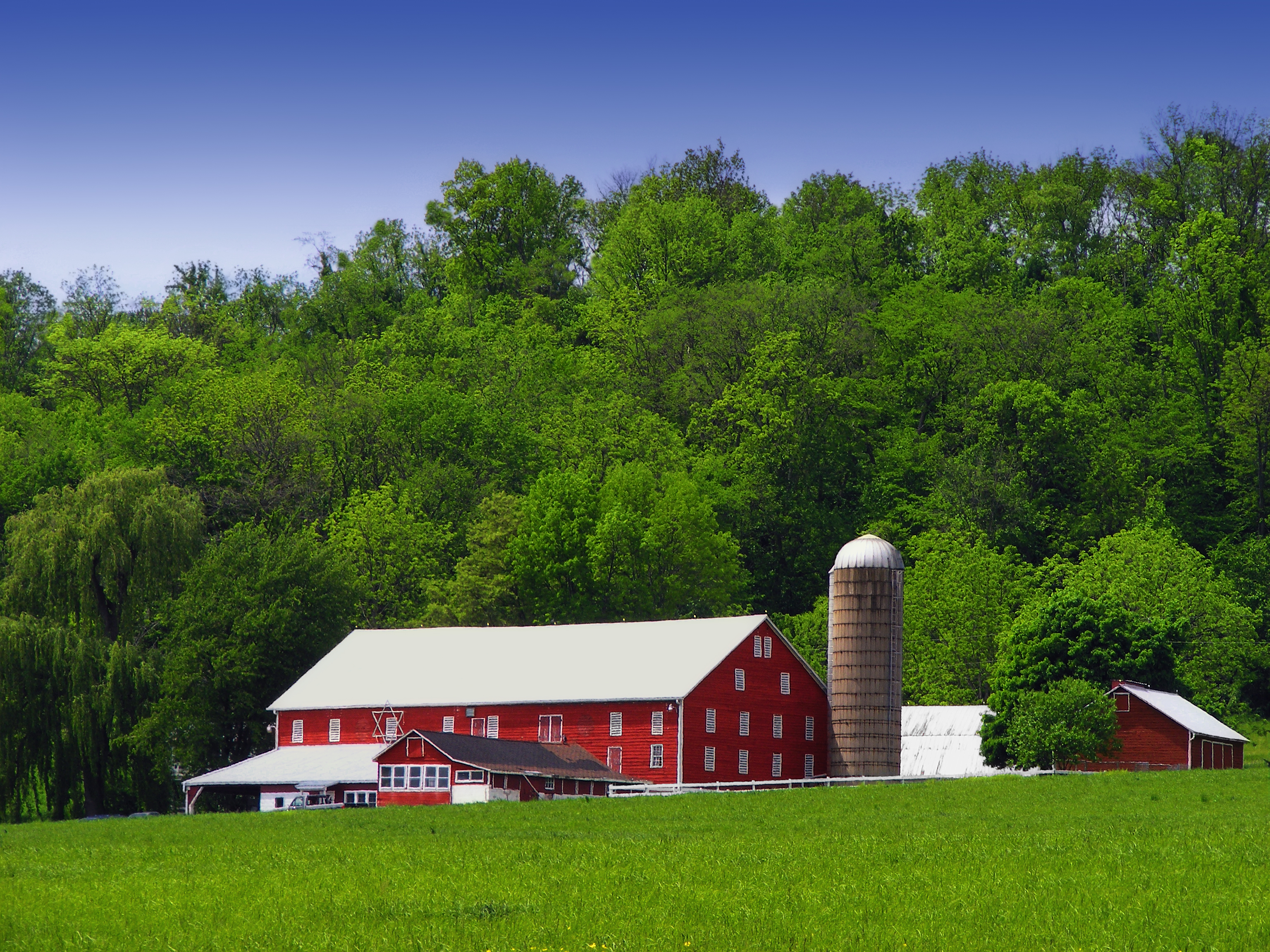 Farmstead, Adams Township, Snyder County.